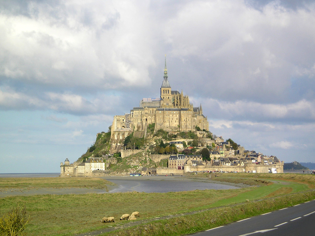 St Michael's Mount